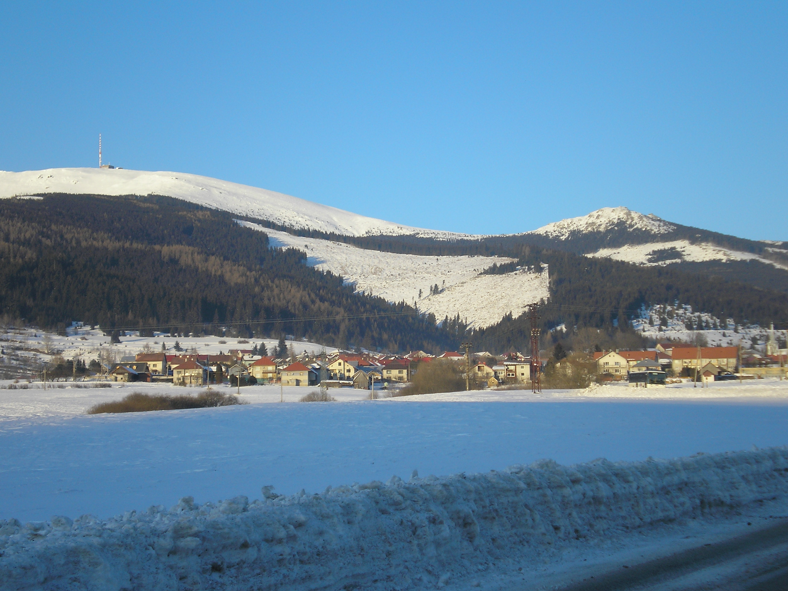 slovakia-šumiac-winter 2012